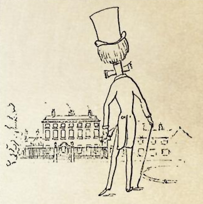 Picture of University House, Durham, which shortly afterwards became Bishop Cosin's Hall, from 'Ye Freshmonne His Adventures at Univ. Coll. Durham', a comic strip drawn in the late 1840s by Edward Bradley, aka Cuthbert Bede, based on his time studying at University College, Durham.